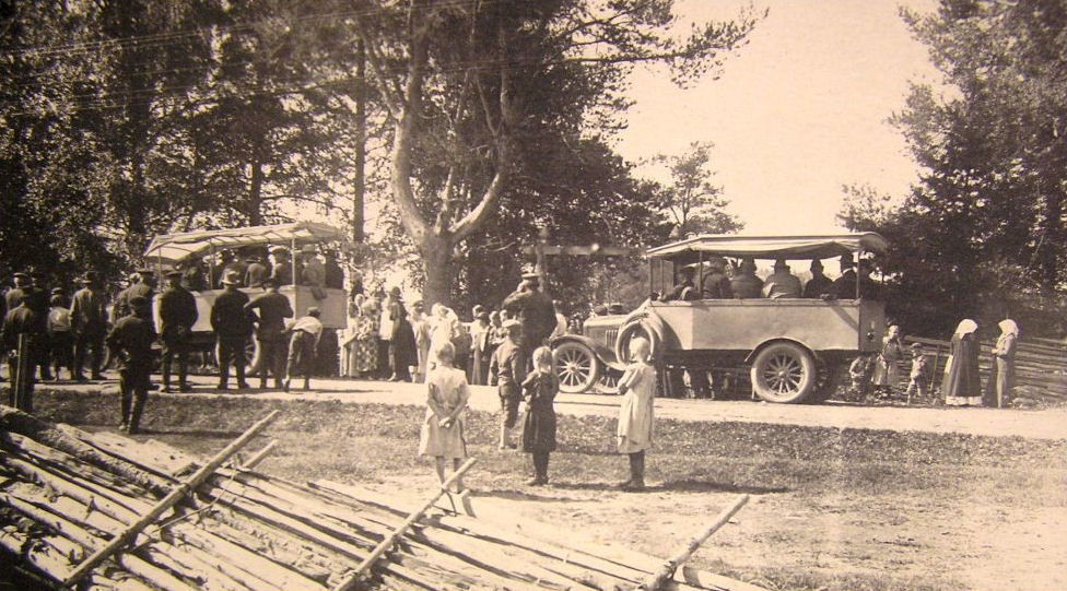 Impilahti Kitelä year 1925